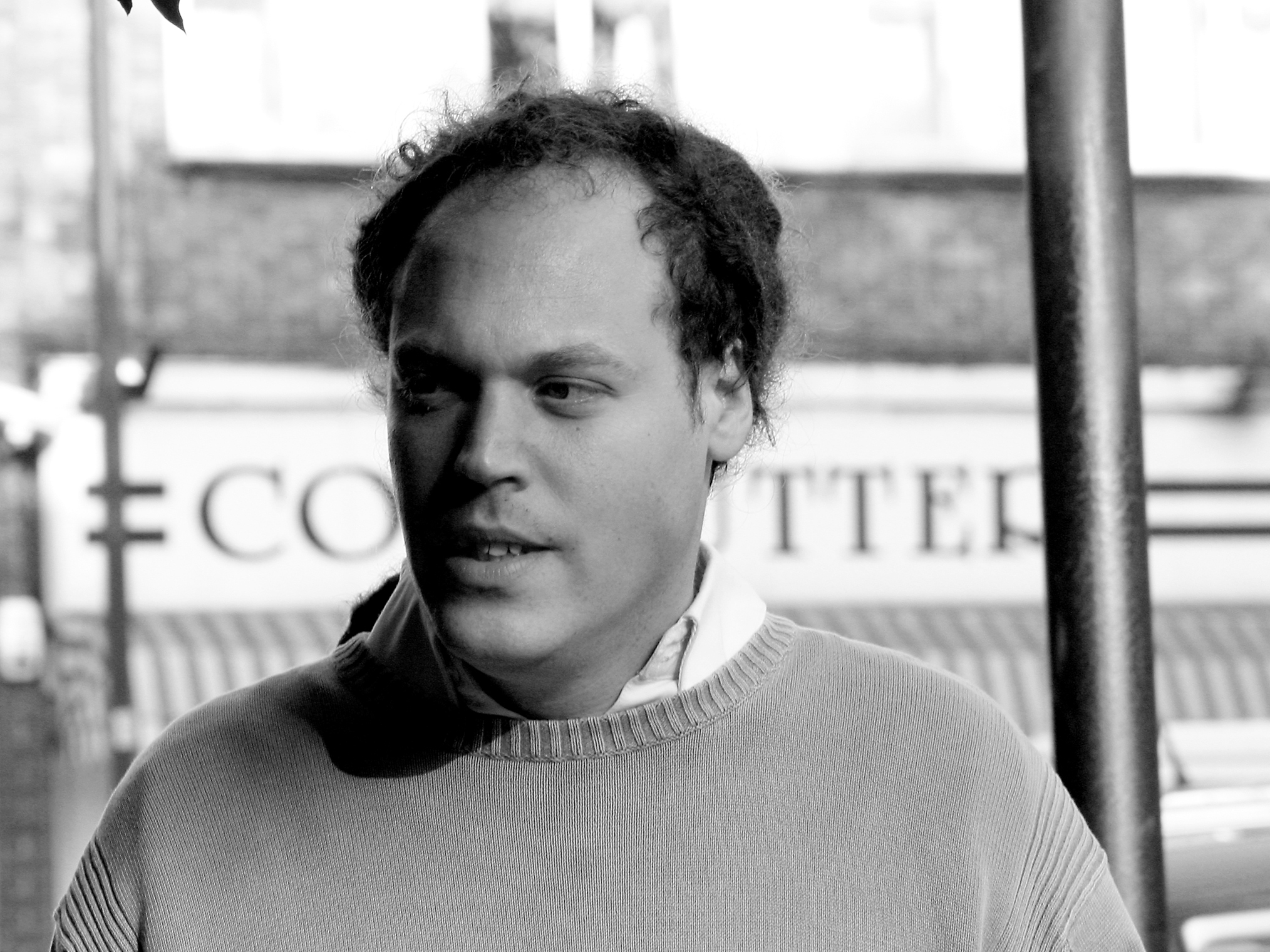 Lavie Tidhar in London in 2006.